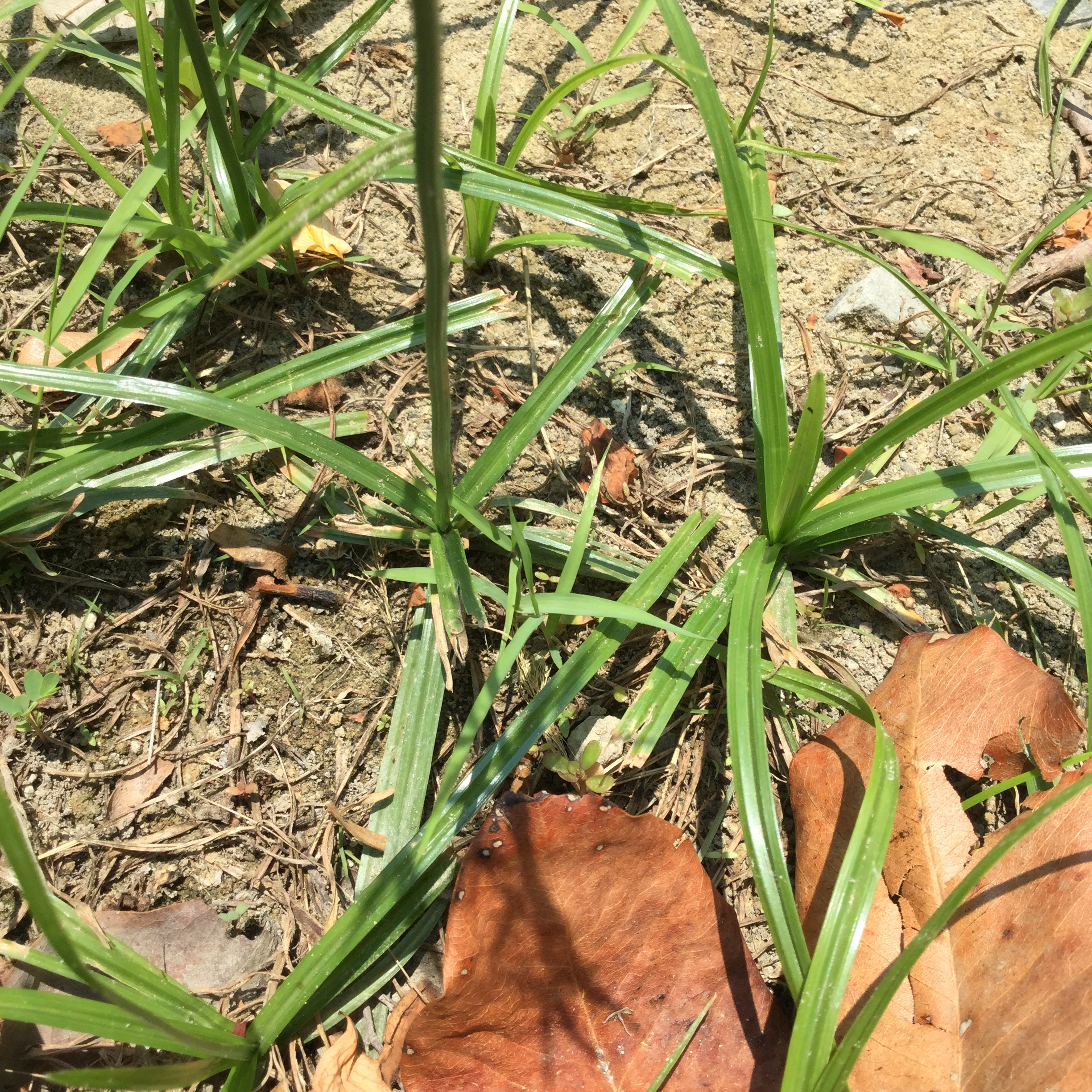 Cyperus rotundus